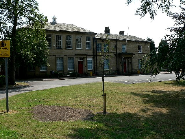 Selby High School. Selby High School is on Leeds Road, Selby